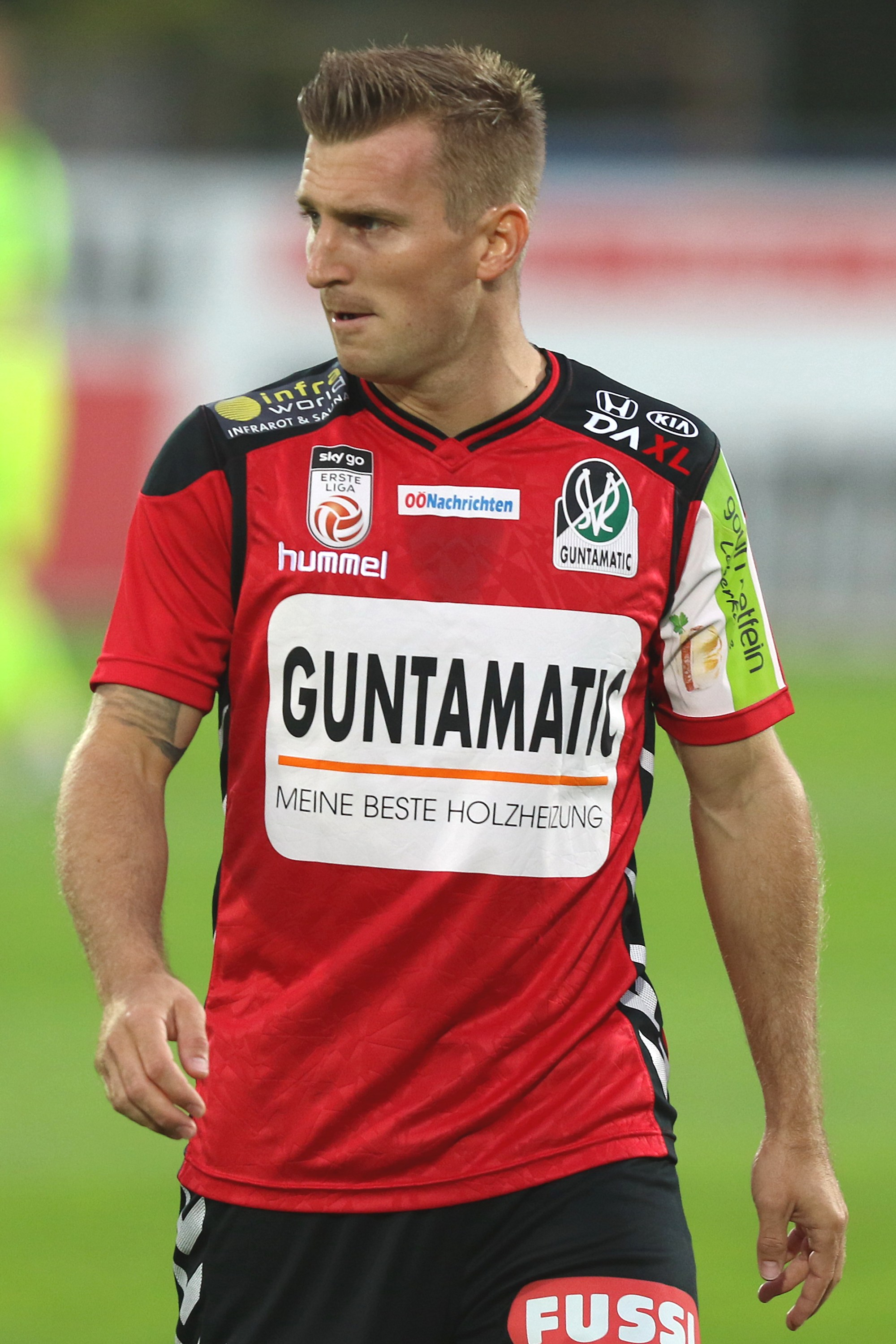 Manuel Kerhe - SV Ried